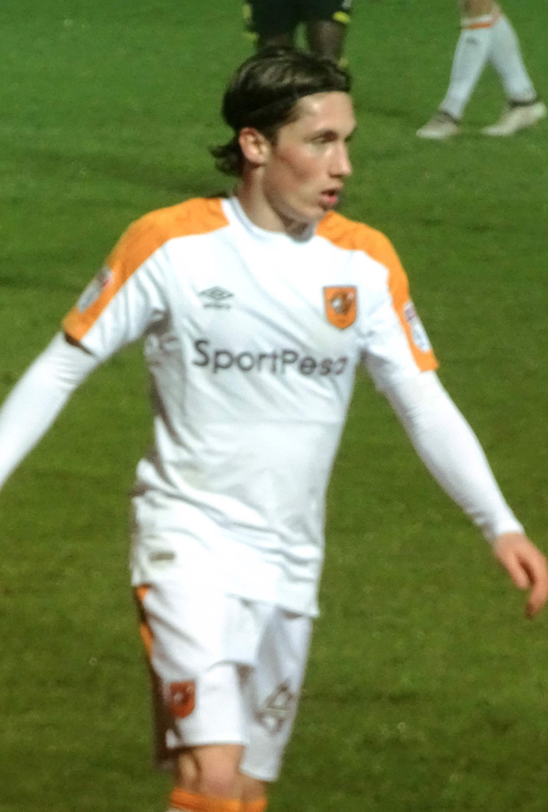 Harry Wilson